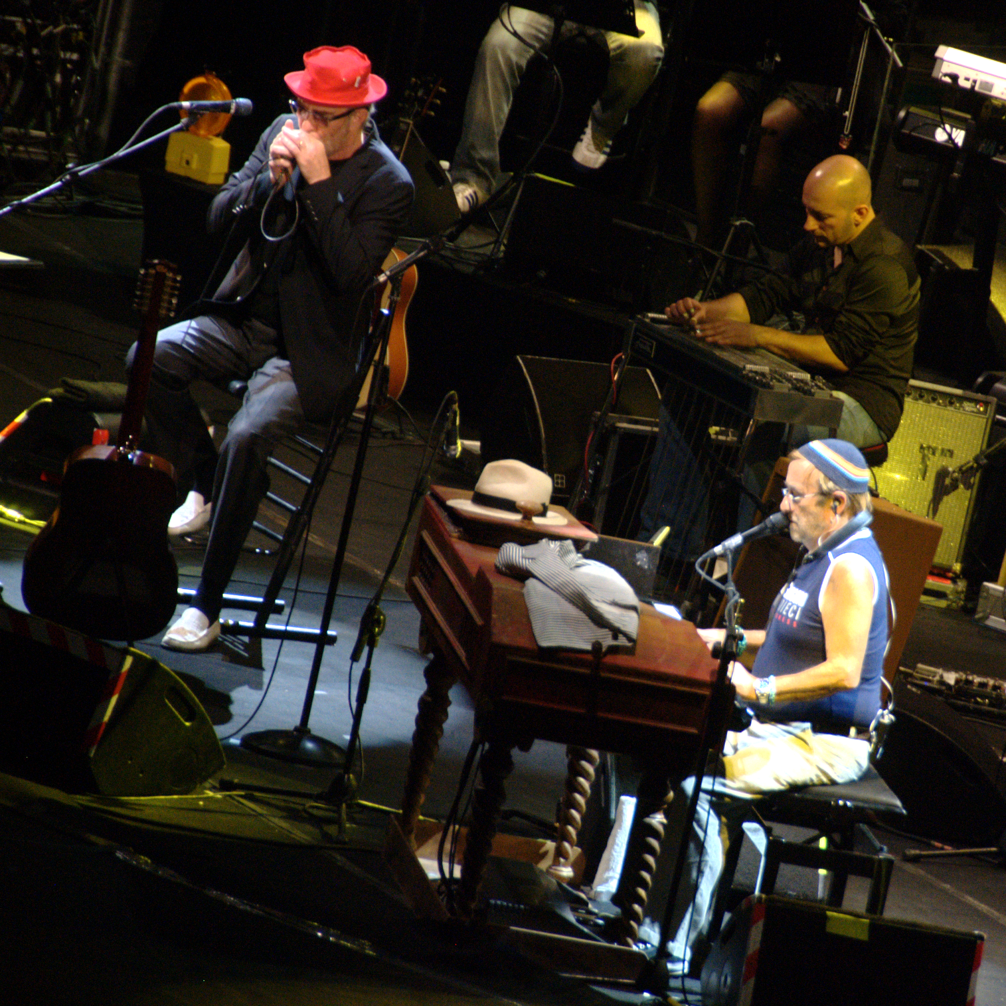 Lucio Dalla and Francesco De Gregori at the PalaFabris in Padova